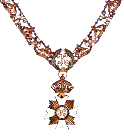 Collar of Knight Grand Cross of the Order of Kamehameha I Source: [1] Author: Ian Watts